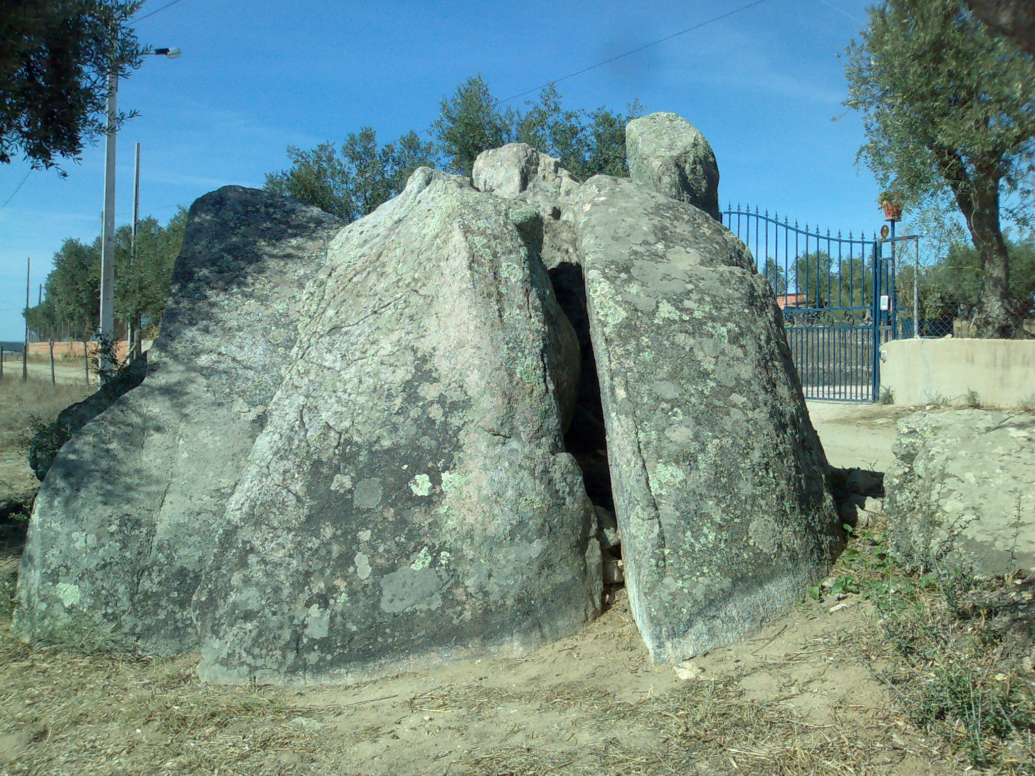 Anta de Aguiar, Portugal